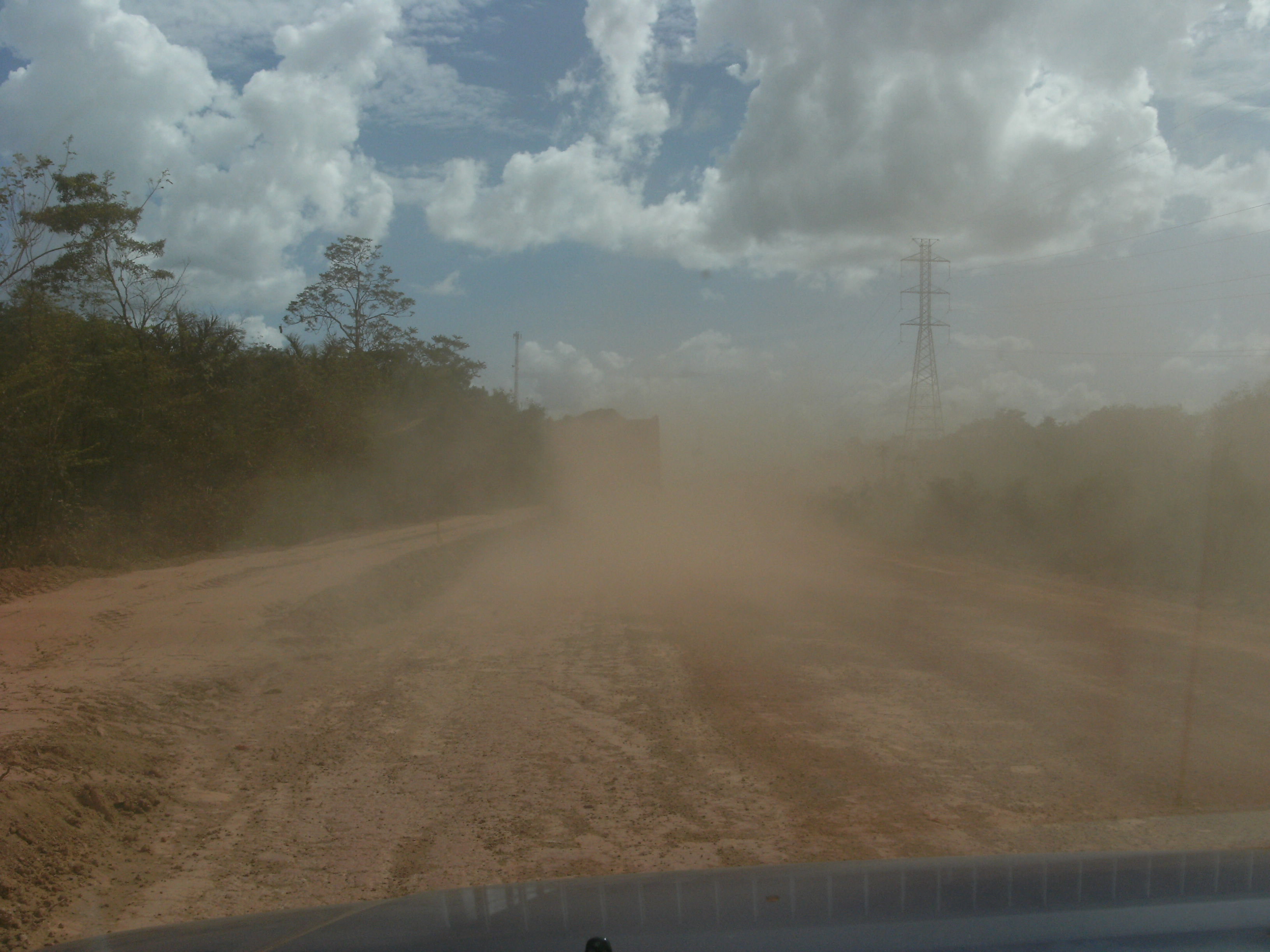 Dusty Afobaka road; bauxite. Suriname.